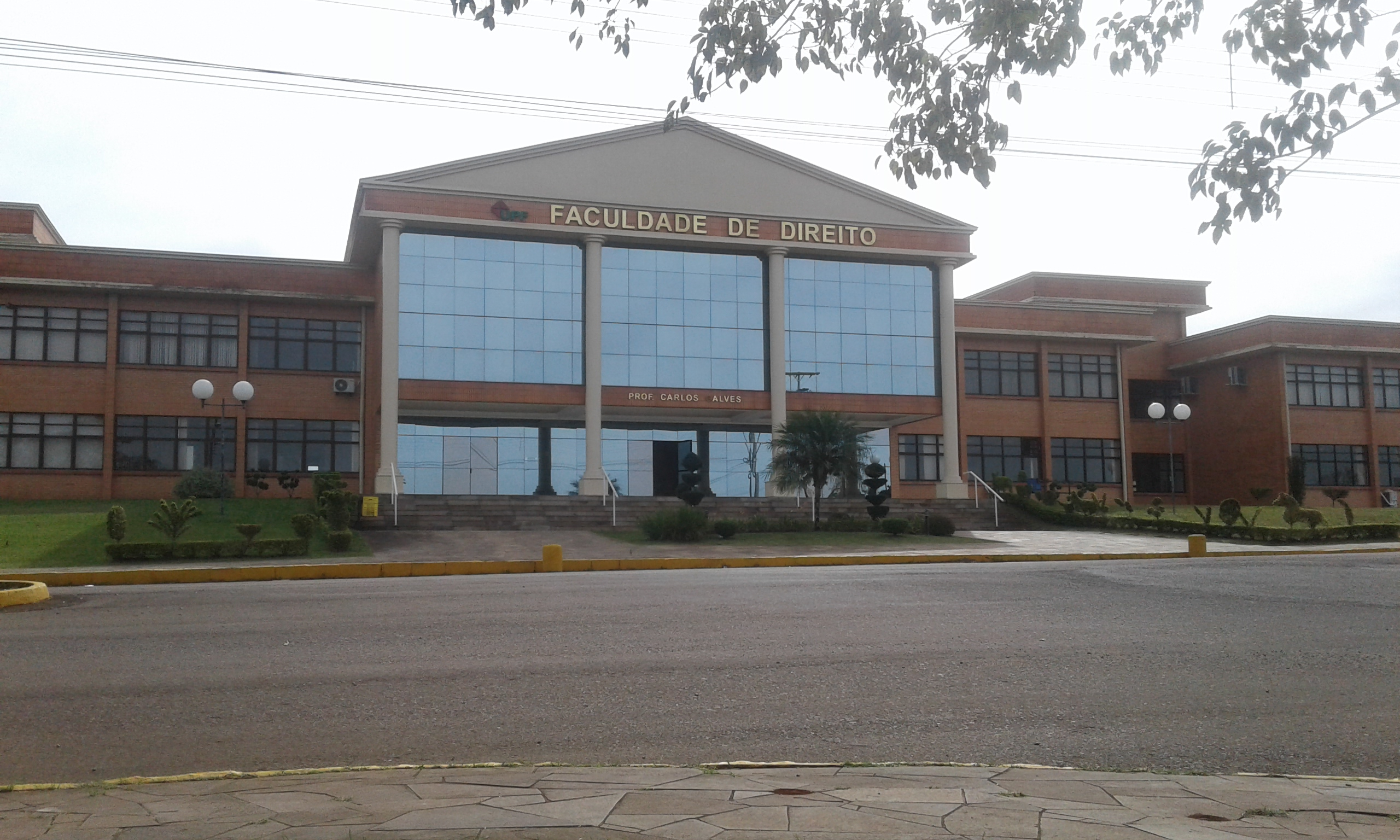 Law Faculty, Passo Fundo University, RS, Brazil